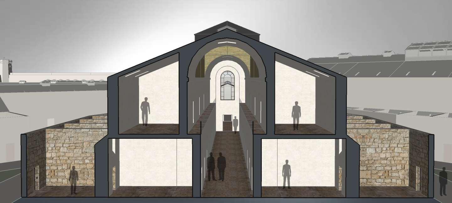 Eastern State Penitentiary, cross section of cell block four looking south. Made from author's Sketchup digital model of prison.